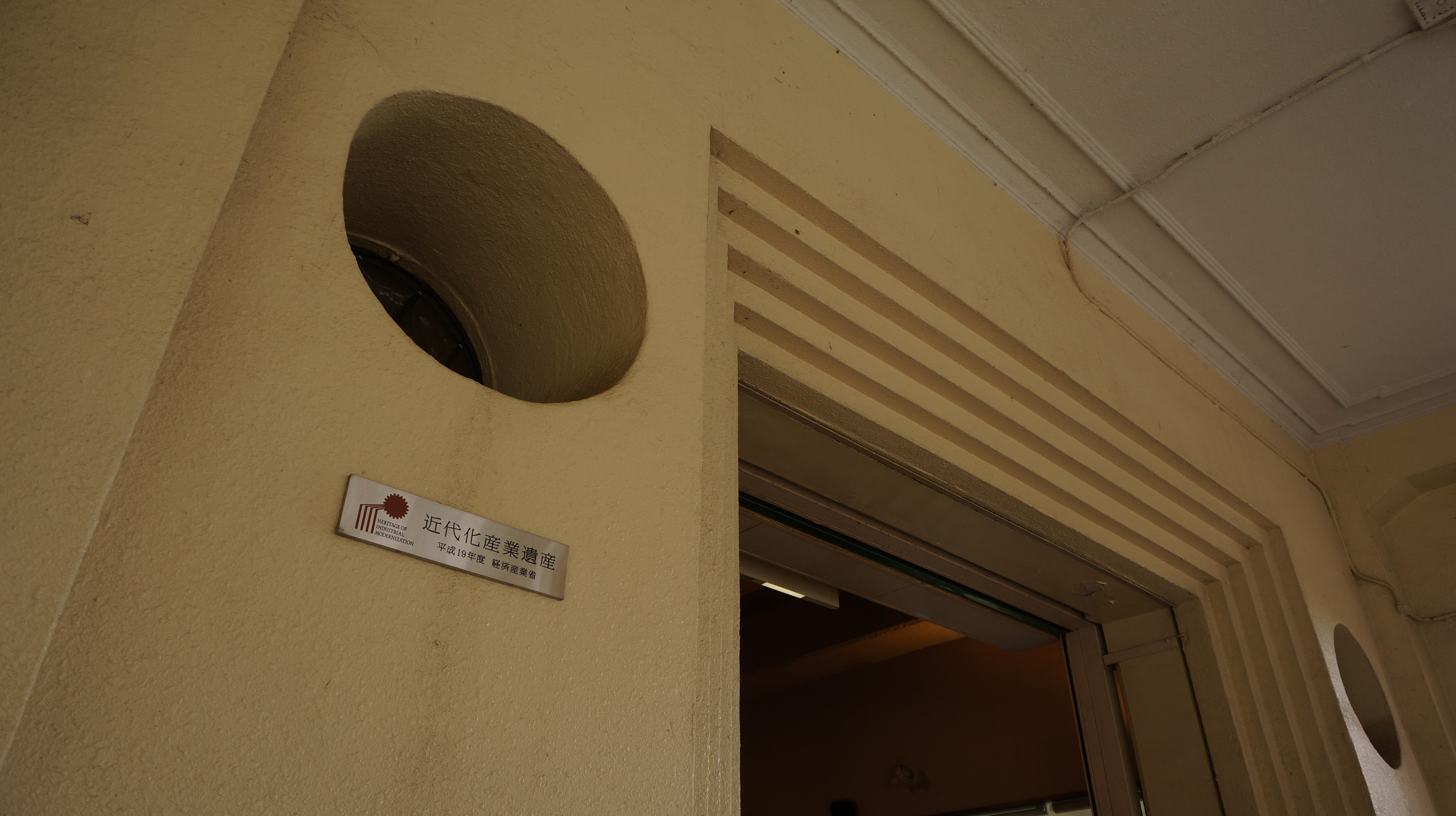 A plate showing that Rokko Sanjo station is part of the heritage of industrial modernization.